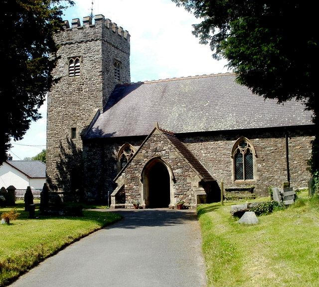 South side of St Cadog Parish Church, Llangadog. The name of the village, Llangadog, means the area around (the church of) Cadog. There has been a church on this site since the 7th century. The tower was a 14th century addition. The present-day church is mostly the result of an extensive restoration and partial rebuild in 1889.